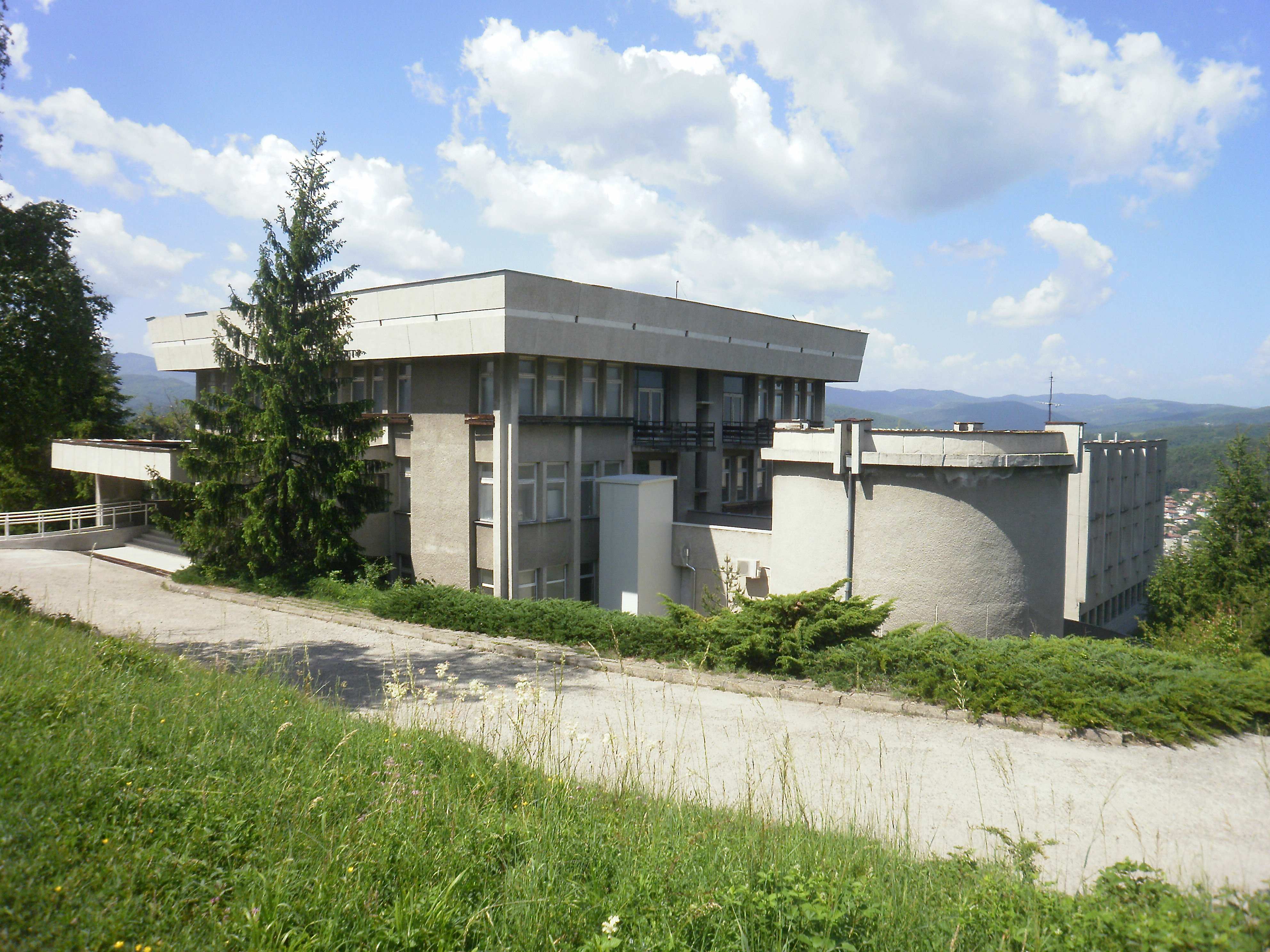 Planetarium with astronomical observatory, Gabrovo